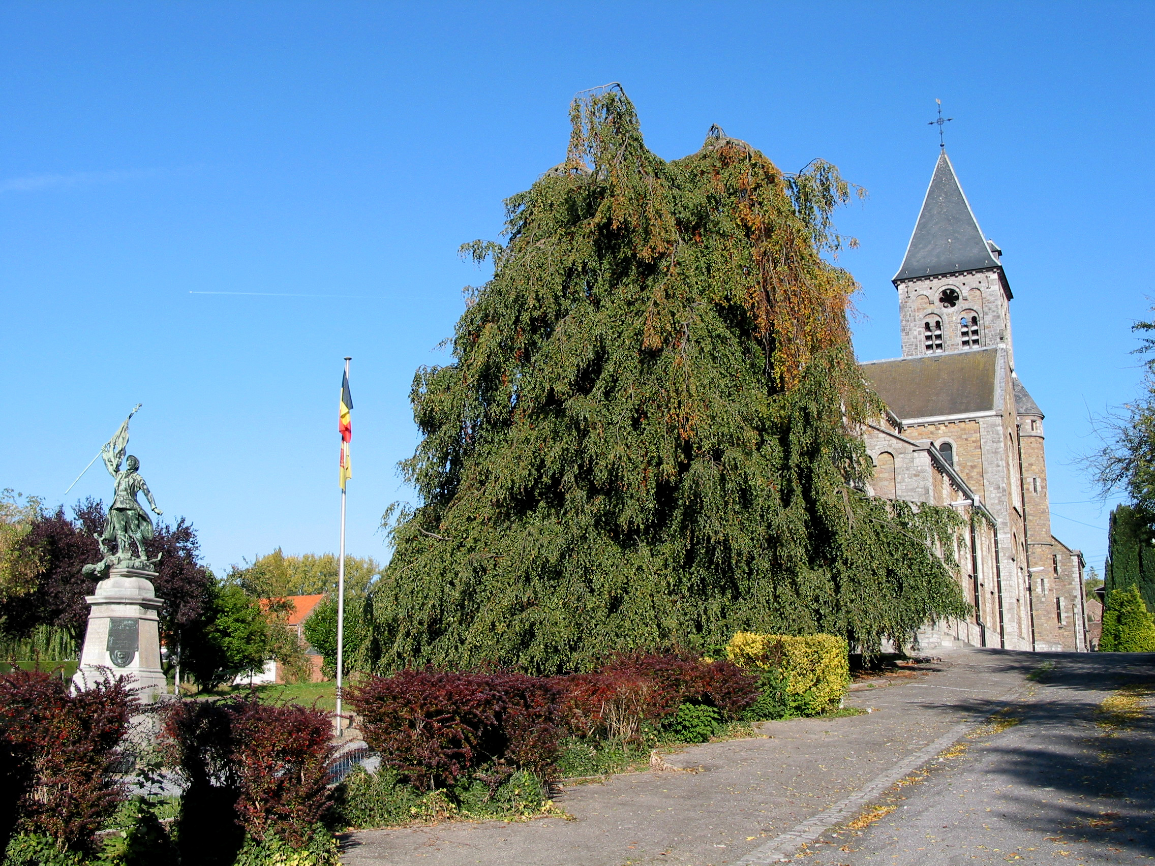 Braives (Belgium), the monument to the fallen of the First World War church of the nativity of Our-Lady (1910).